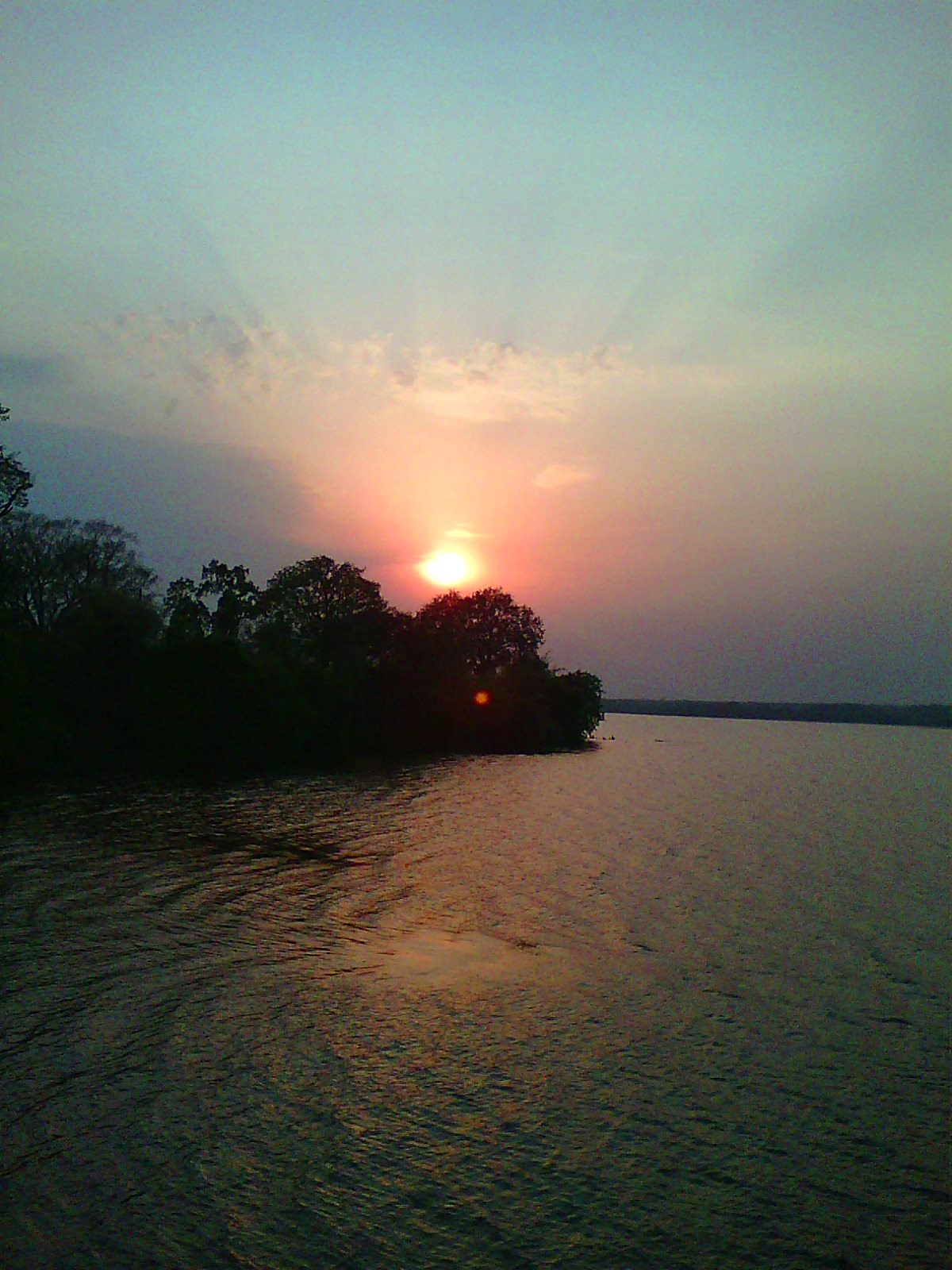 Gorewada lake near by Nagpur City, this is the water filter place